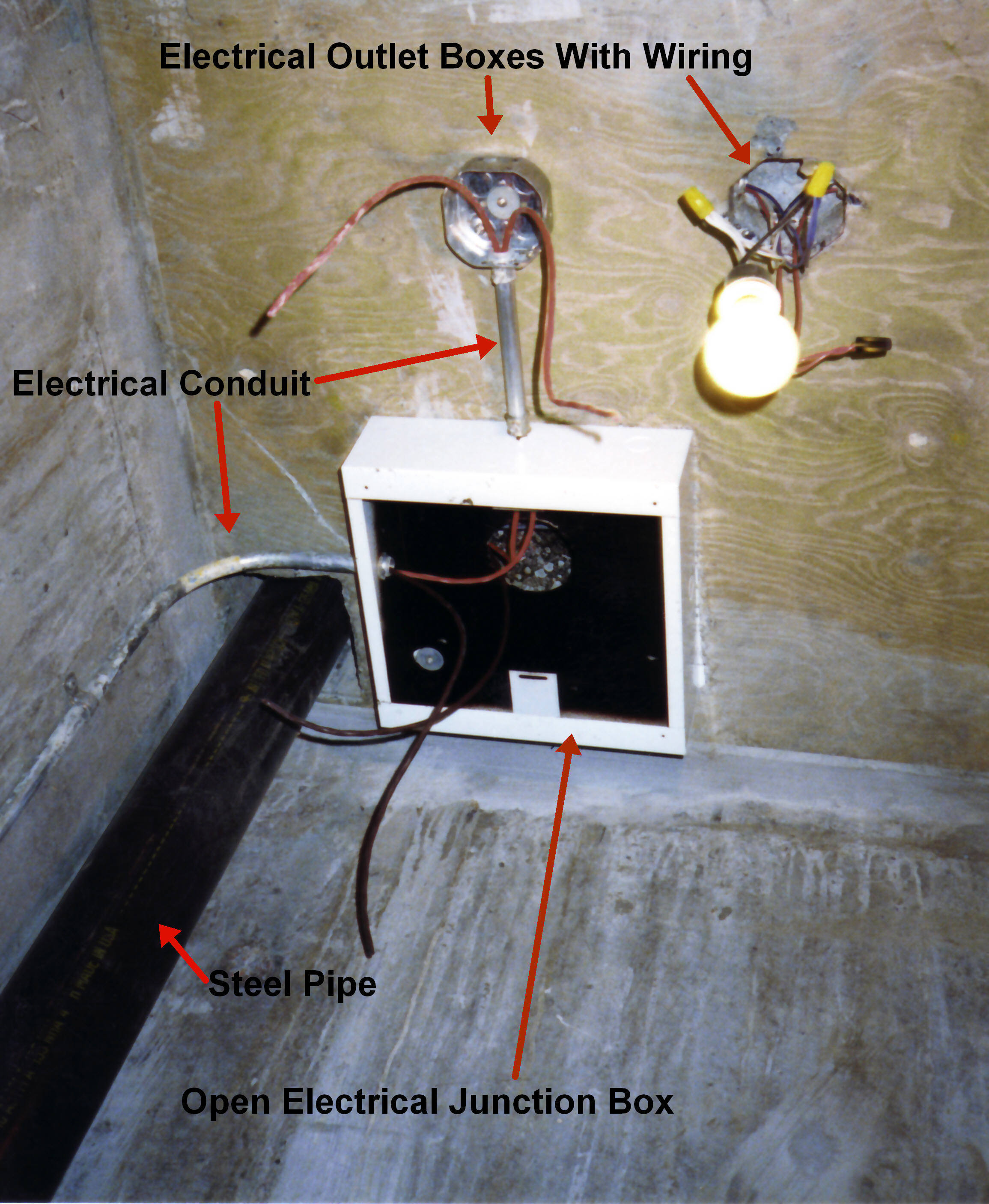 Electrical junction box in the process of installation. Electrical conduit and cables come together here for disposition.